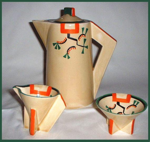 The 'Ravel' pattern on a Concial shape coffee pot, sugar and cream